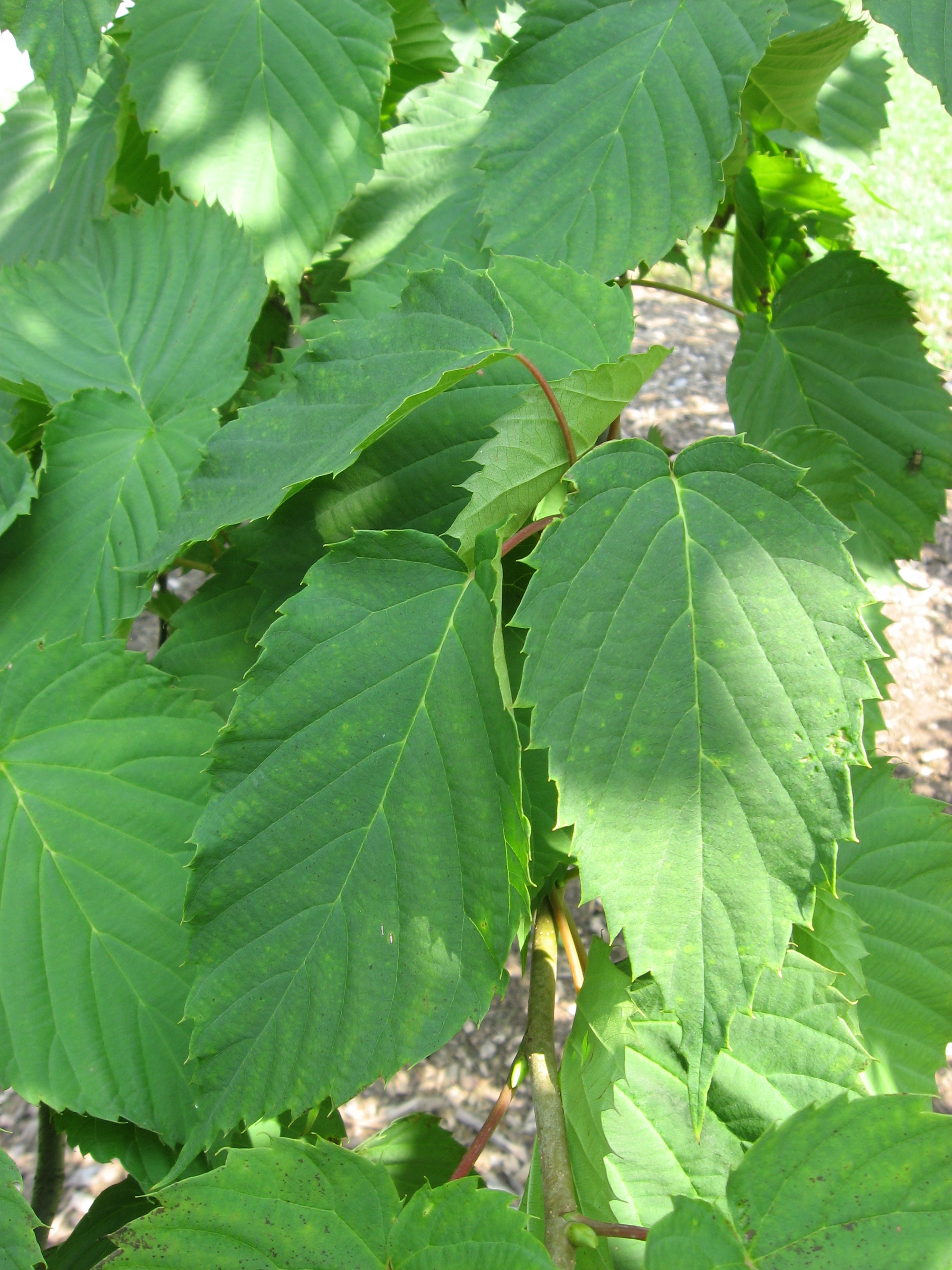 A picture of the leaves of Davidia involucrata.